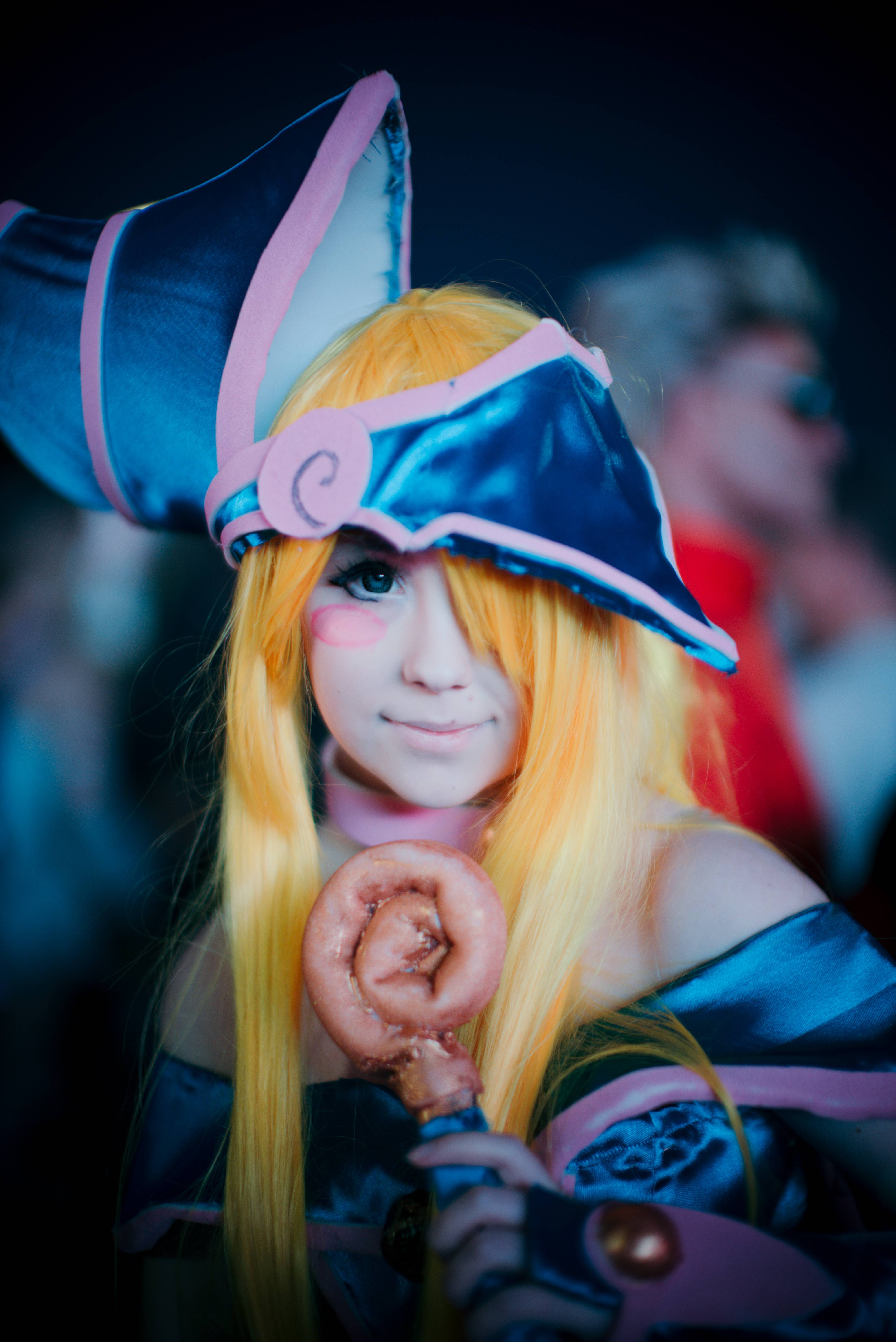 Cosplay of Dark Magician Girl (from Yu-Gi-Oh!) at MCM London Comic Con, October 2016.中文（台灣）: MCM London Comic Con，《遊戲王》黑魔導女孩cosplayer。